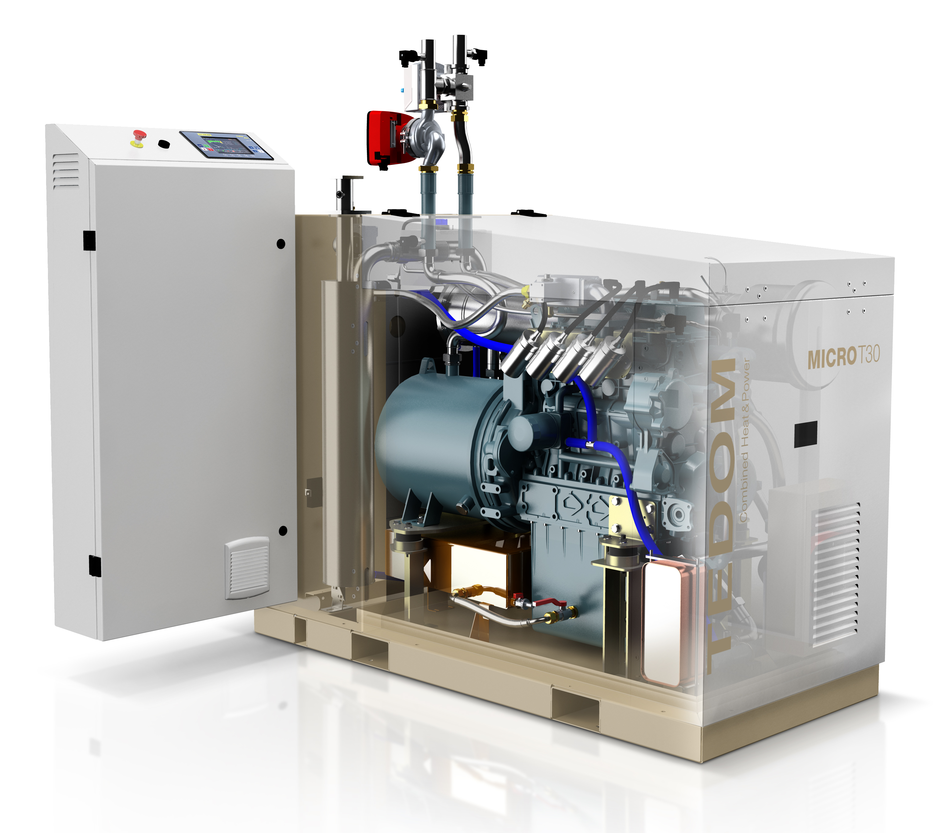 MICRO CHP unit designed and manufactured by TEDOM.